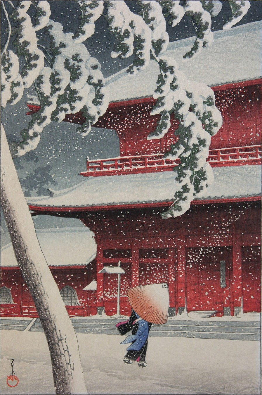 Kawase Hasui woodcut Shiba Zôjôji from series "20 views of Tokyo"